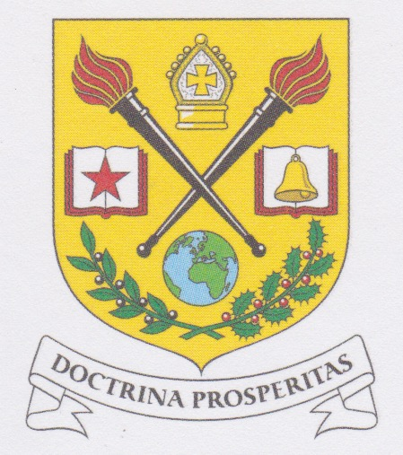 A scanned document showing the Coat of Arms of University of the West of Scotland